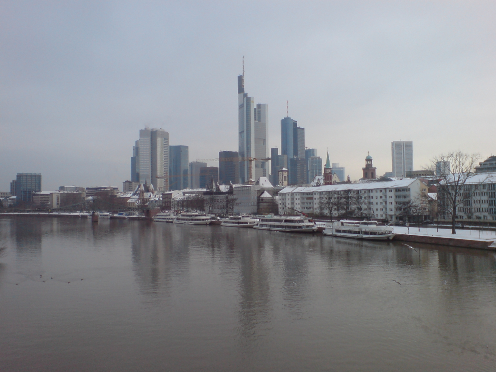 Winter skyline in Frankfurt, Germany.